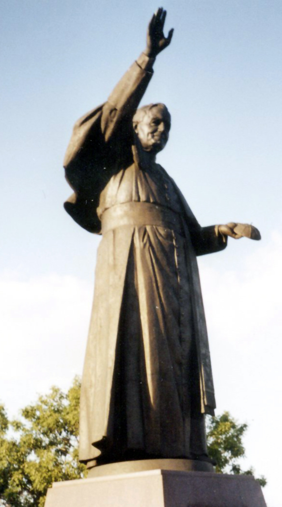 Statue of John Paul II in Częstochowa, southern Poland